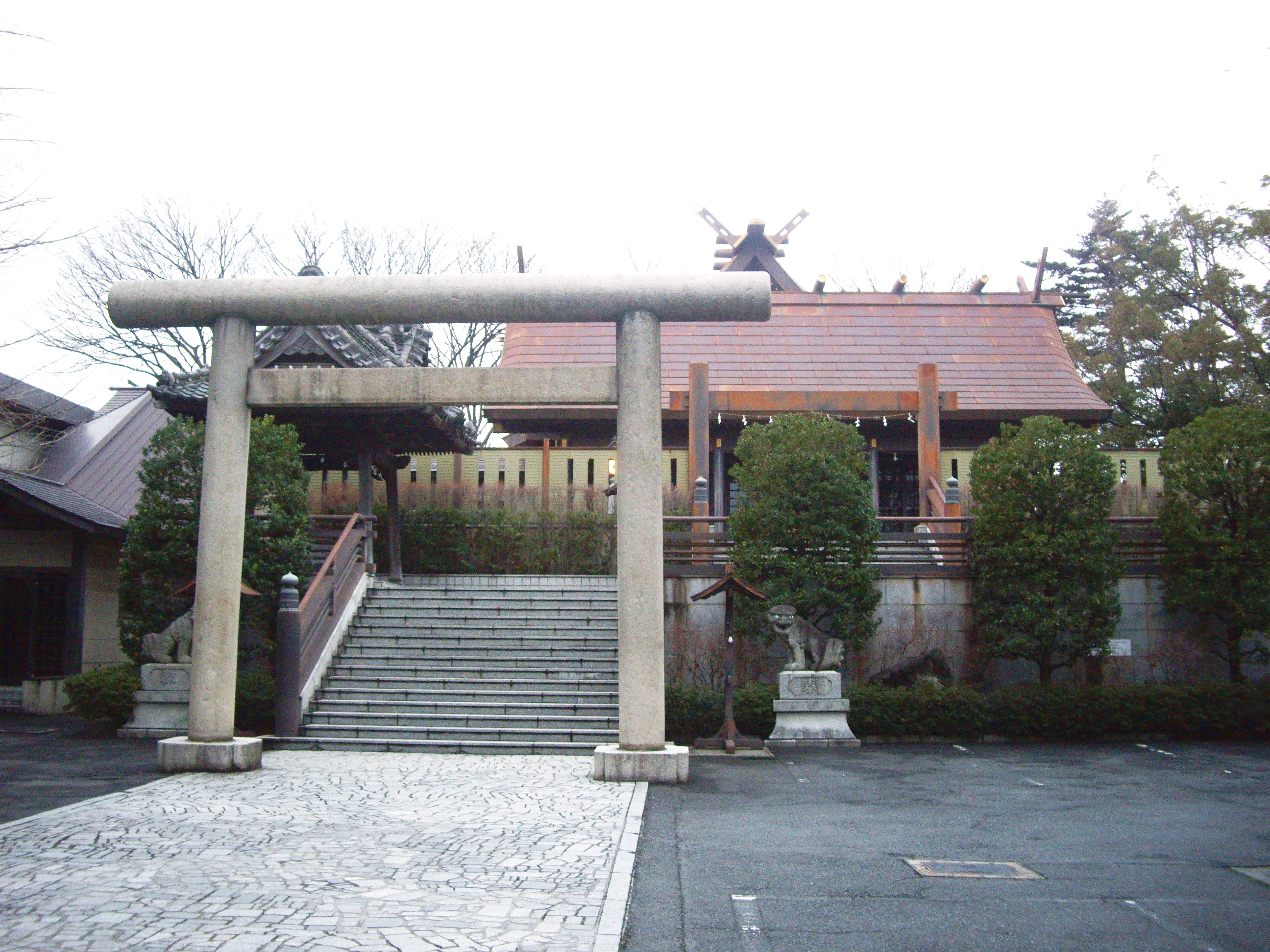 Takasaki Shrine, in Takasaki, Gunma Prefecture, Japan